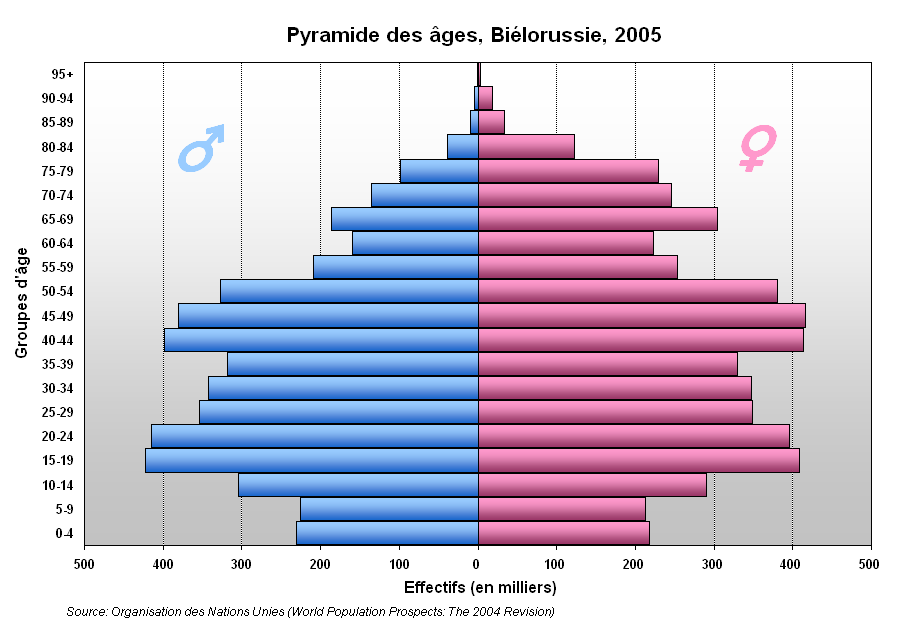 Belarus Population pyramid, 2005